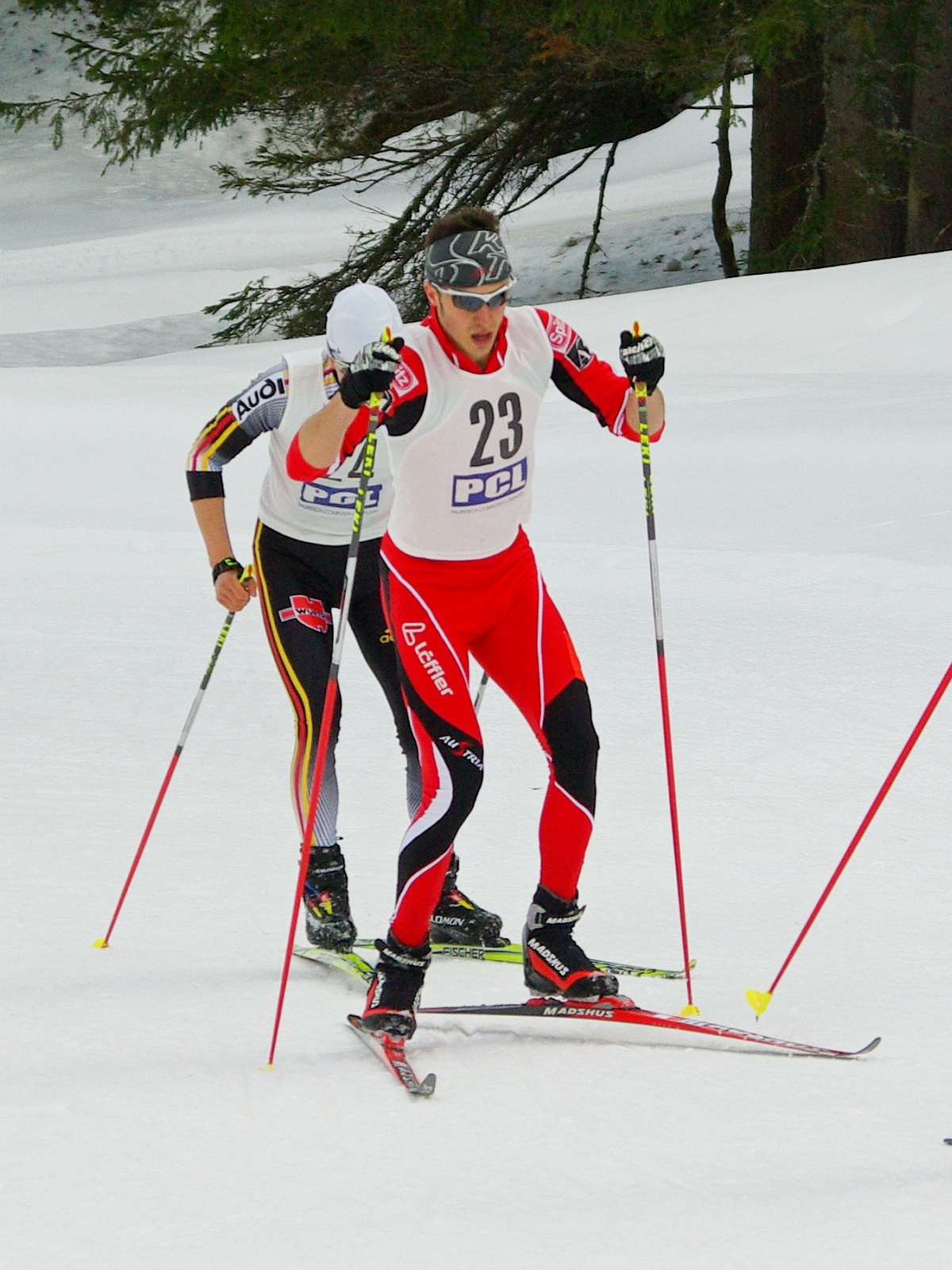 Austrian nordic combined skier Tobias Kammerlander, followed by Fabian Rießle (GER), during the World Cup B sprint event in Eisenerz (Austria) on 9 March 2008.